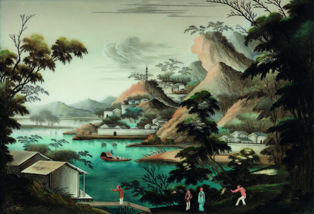 CHINESE SCHOOL (LATE 18TH/EARLY 19TH CENTURY) Village Visit Oil on glass, framed 44cm x 64.5cm (17Din x 25Din).